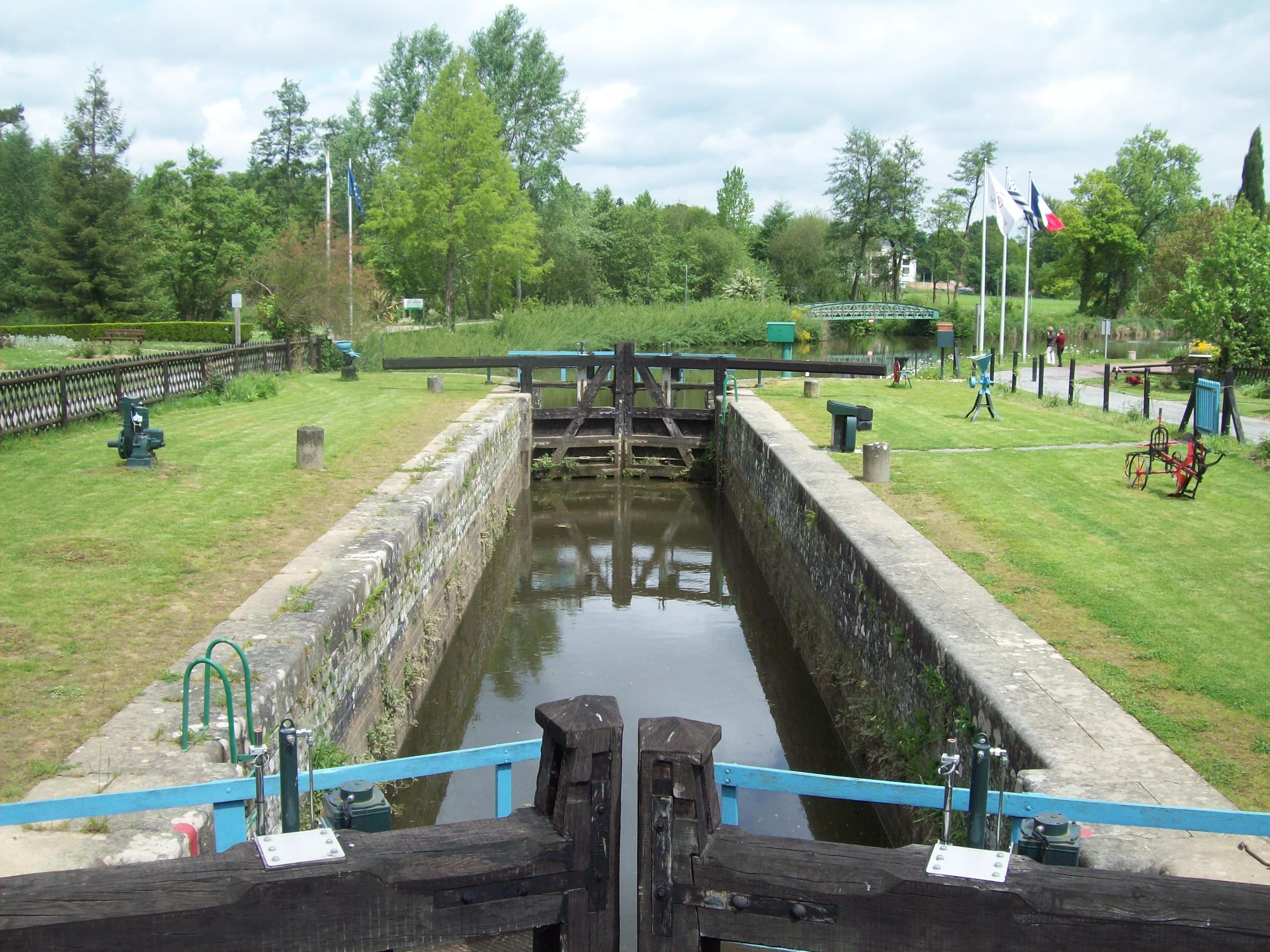 Saint-Grégoire (35) lock.